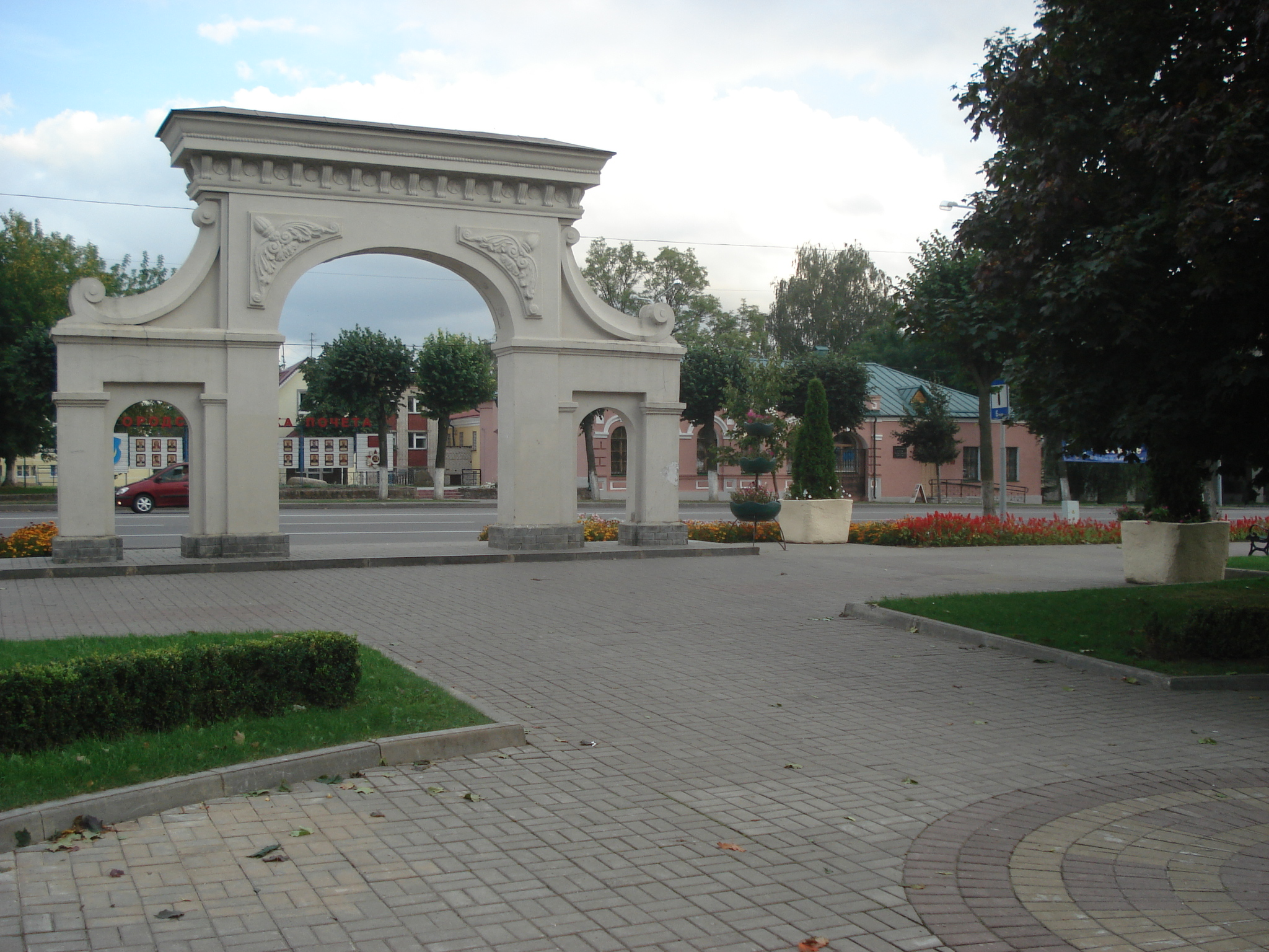 Gate in Vorša